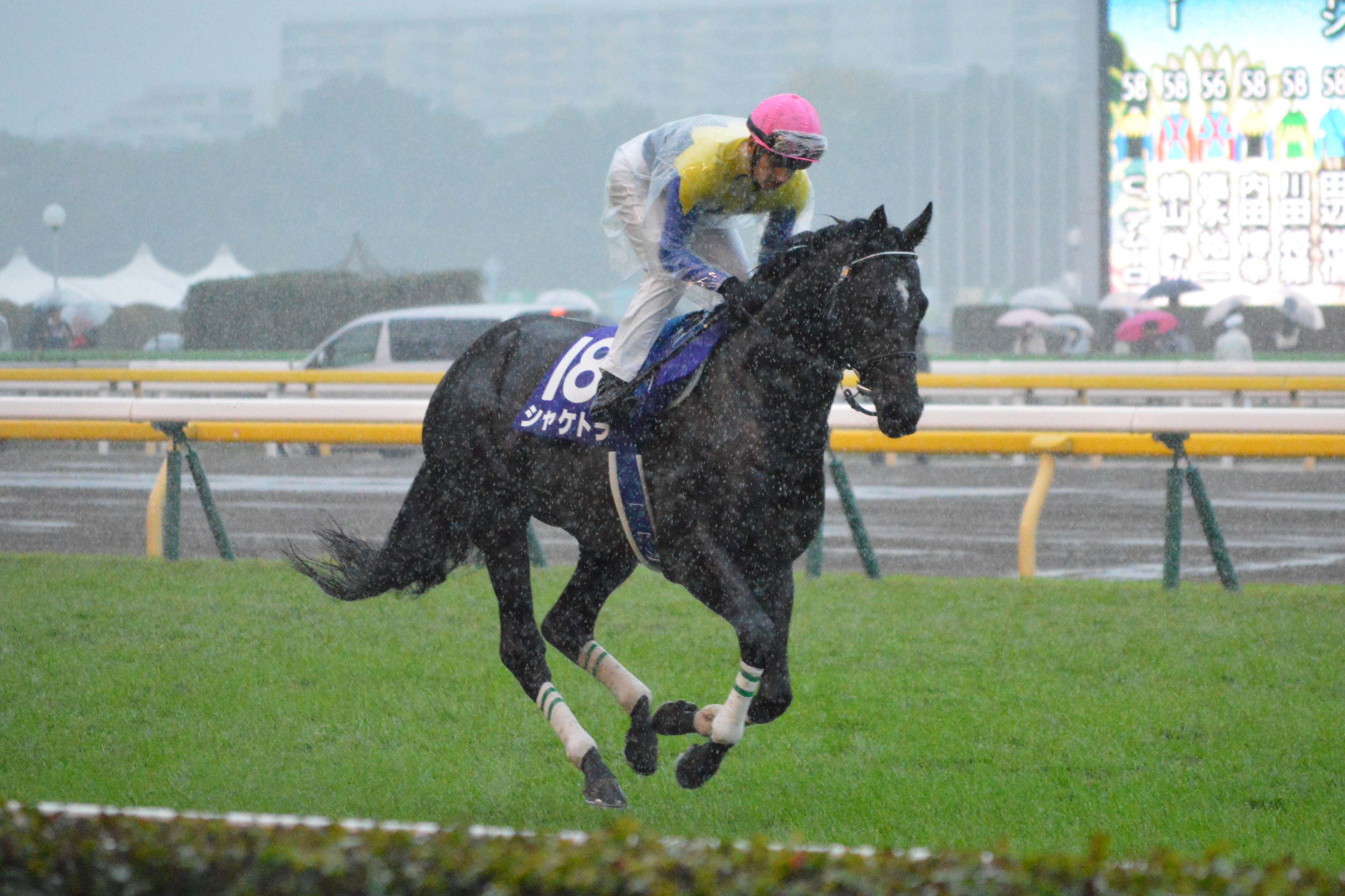 Japanese race horse Sciacchetra at Tokyo racecourse. Tokyo (JPN) 29 Oct 2017Tenno Sho (Autumn) (Grade 1) (3yo+) (Turf) 1m2f soft RankHorse NameOddsAgeWgtTrainerJockey1stKitasan Black (JPN)21/10FH59-2Hisashi ShimizuYutaka Take15thSciacchetra (JPN)30/1C49-2Katsuhiko SumiiCristian DemuroOthers are omitted. (18 horses entered in a race.)